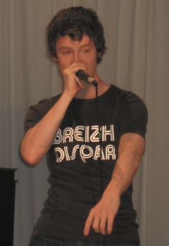 Iwan B at the InterCeltic Festival at Lorient